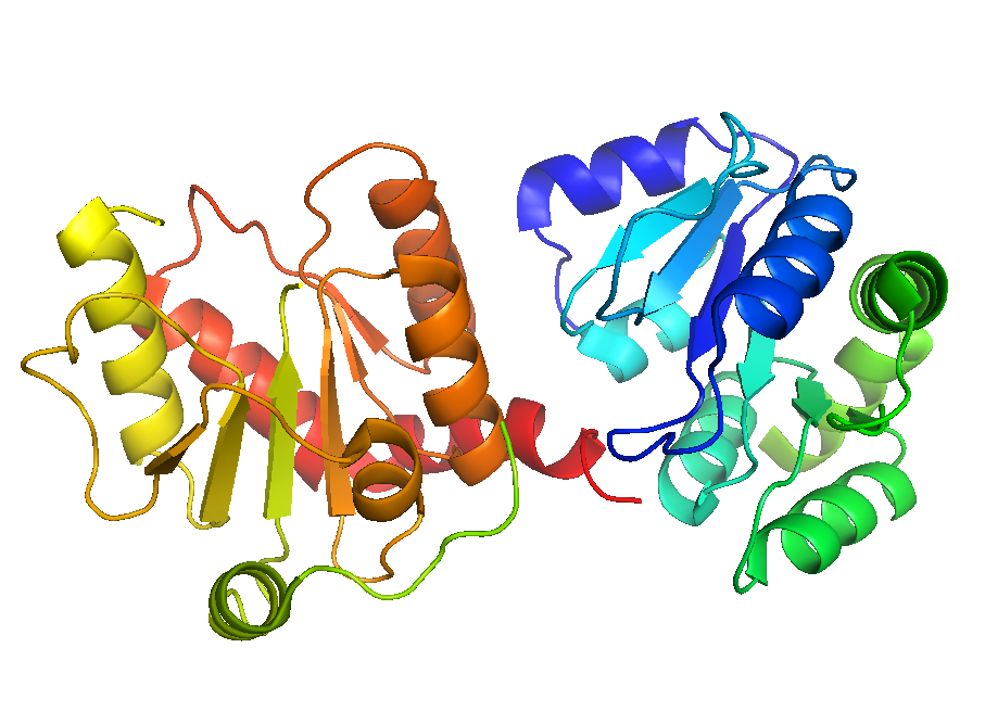 Structure of the UGT2B7 enzyme depicting dimerization and Rossmann folds